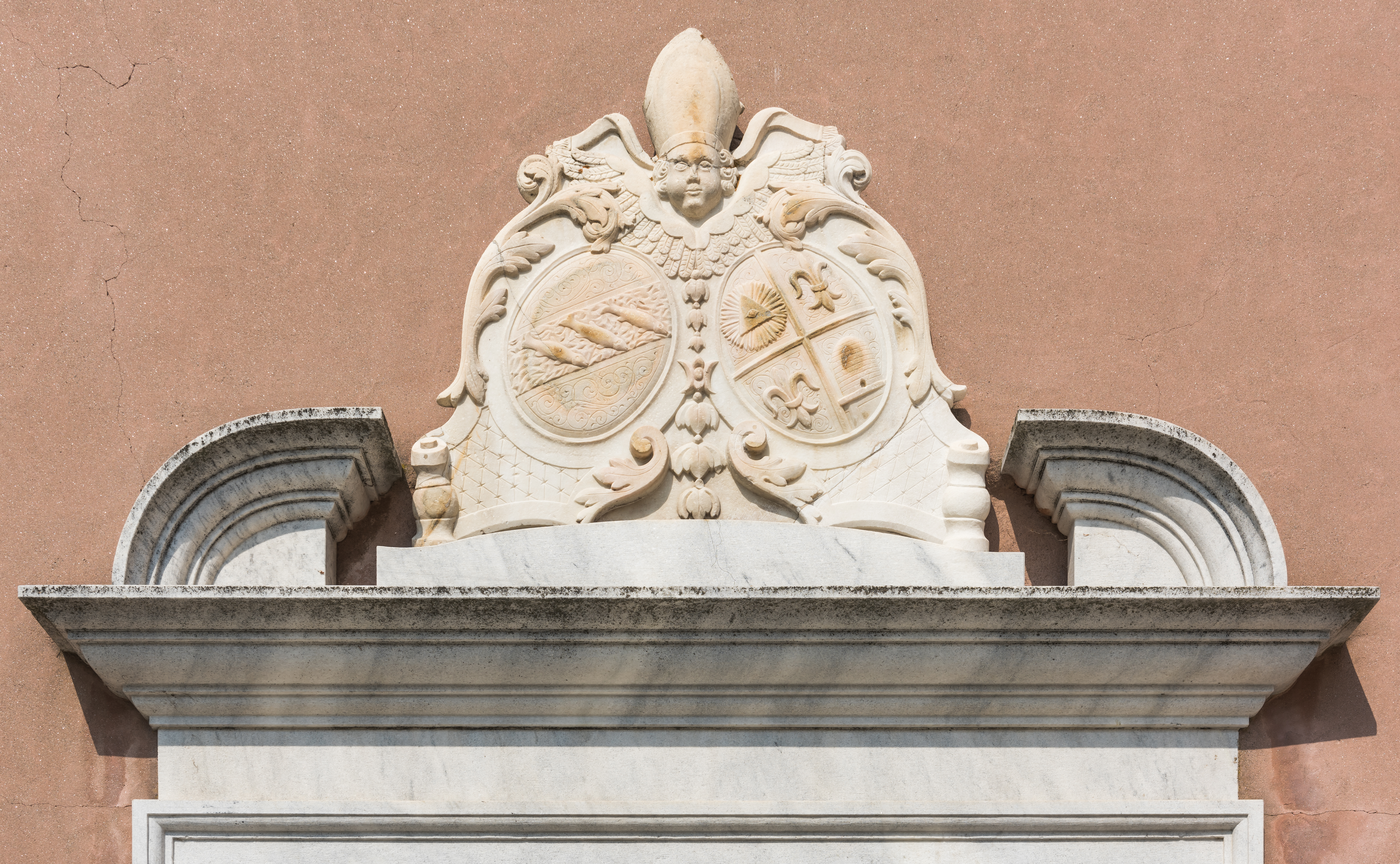 Overdoor at the portal of the parish and monastery church Assumption of Mary, Ossiach #1, municipality Ossiach, district Feldkirchen, Carinthia, Austria, EU